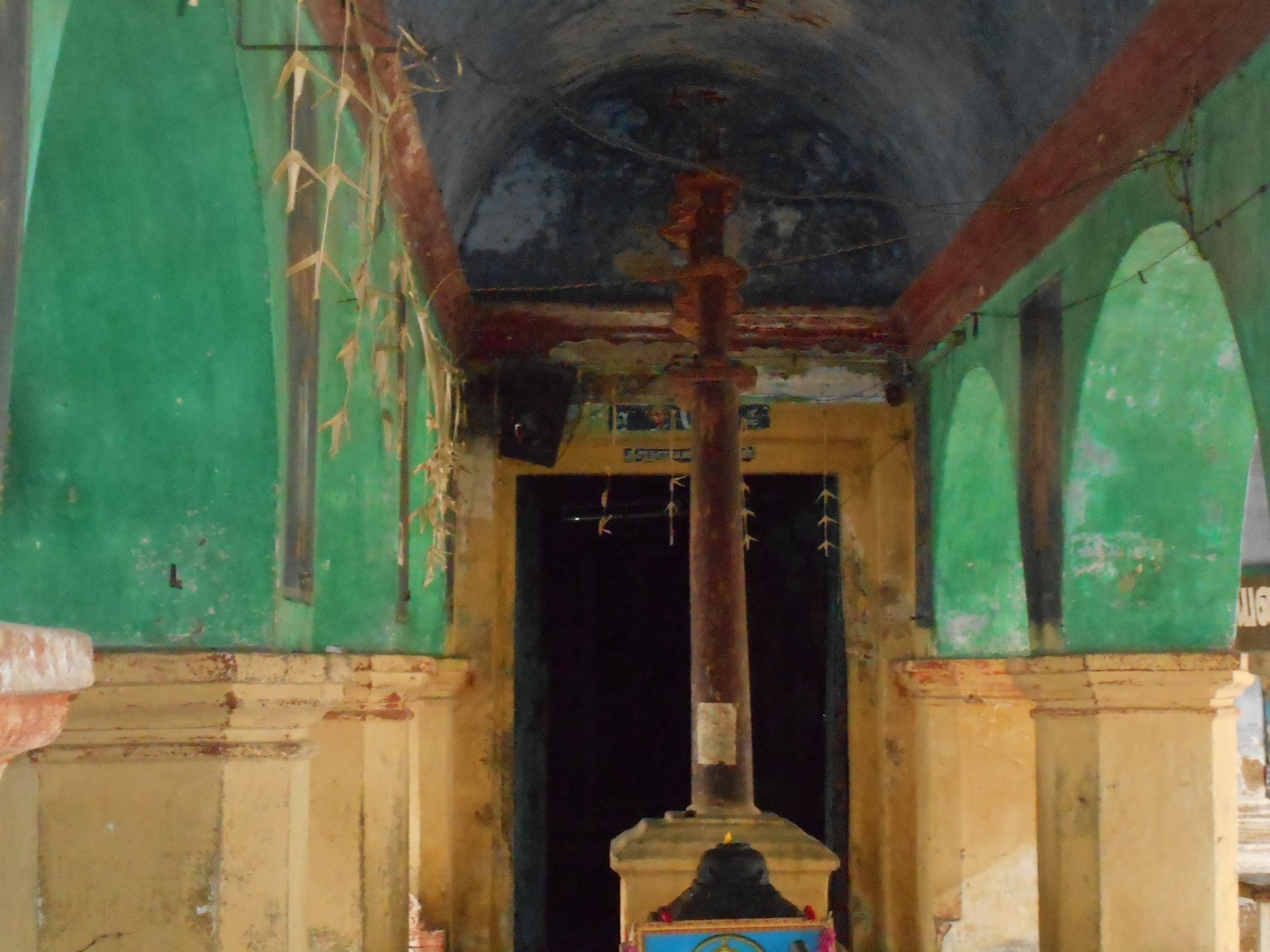 கும்பகோணம் சரநாராயணப்பெருமாள் கோயில்2